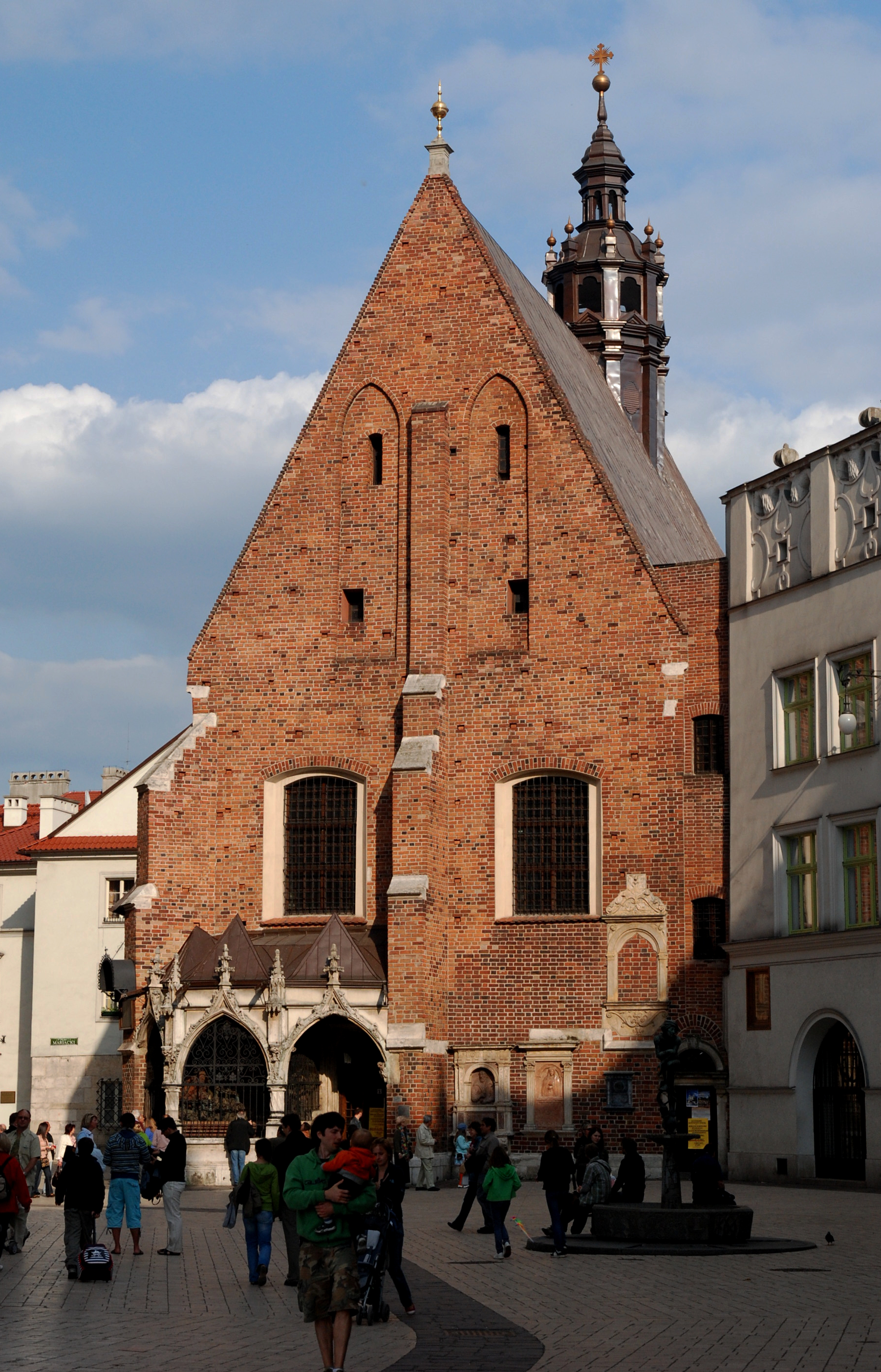 Church of St. Barbara in Kraków, Poland